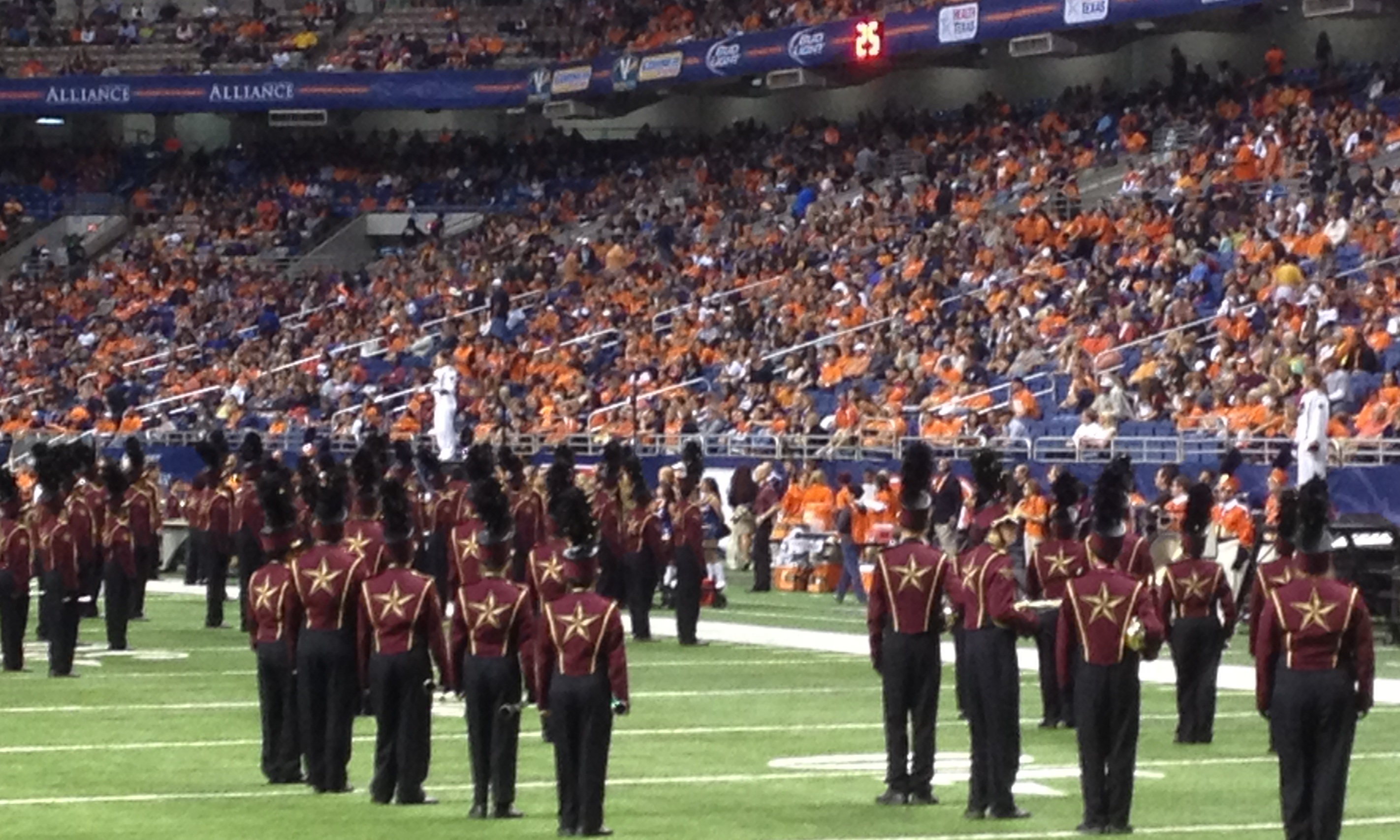 The Bobcat Marching Band performs at the Alamodome during halftime against UTSA in November 2012.